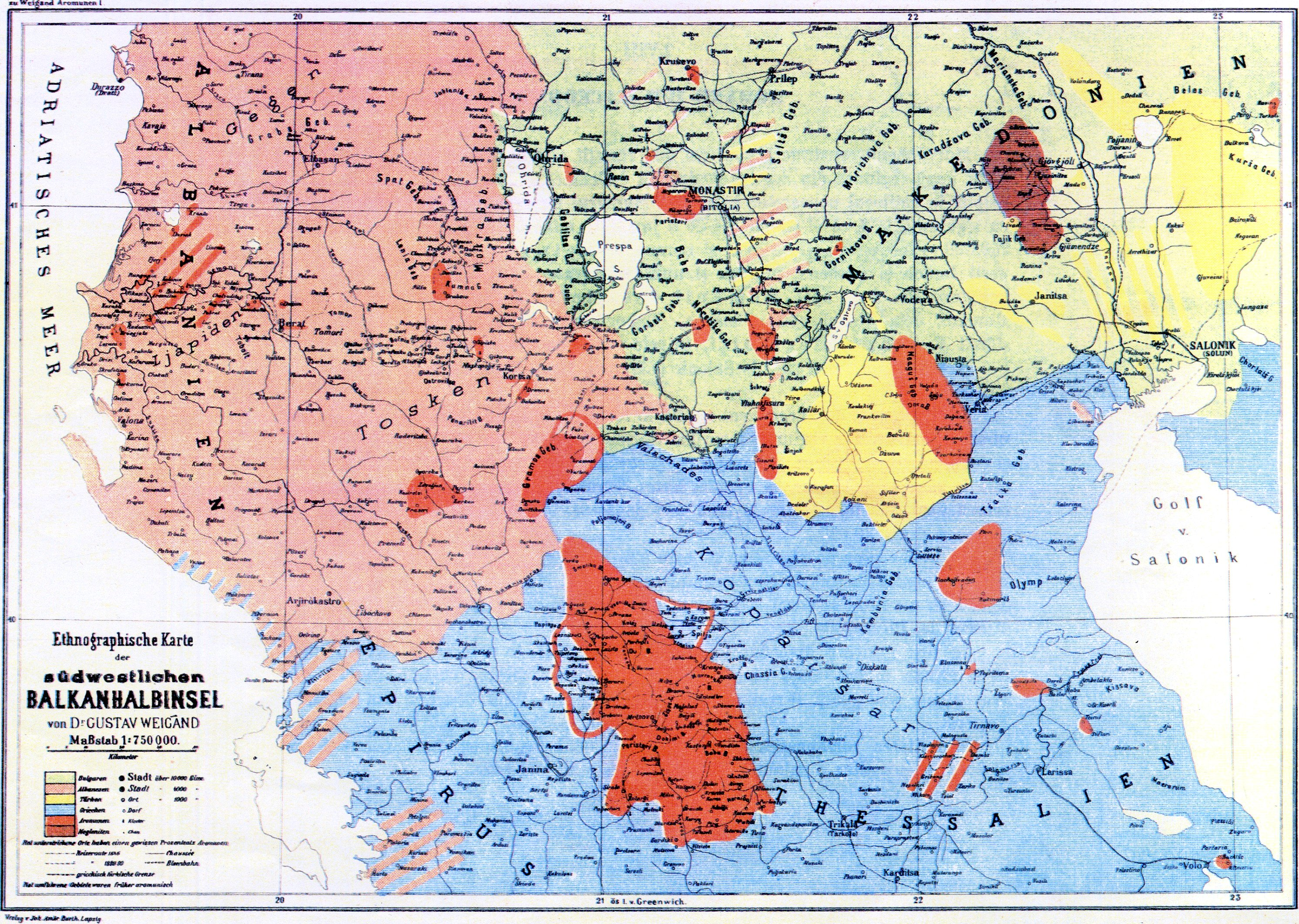 Ethnic map of the Southwestern Balkan Peninsula